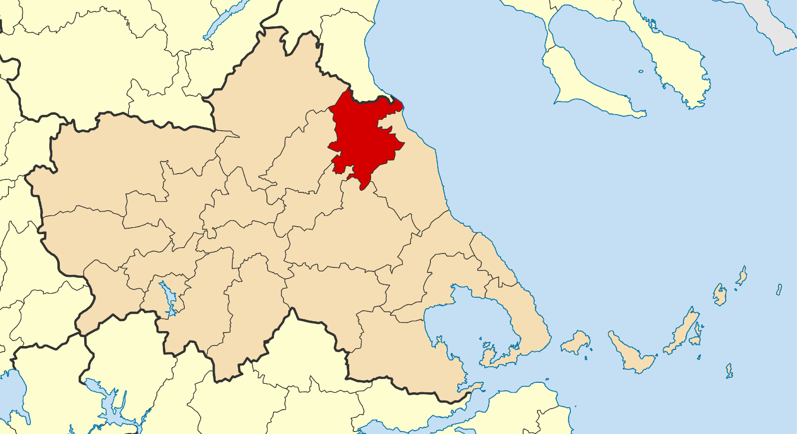 Locator map for Tembi municipality in Greek region Thessaly (2011)